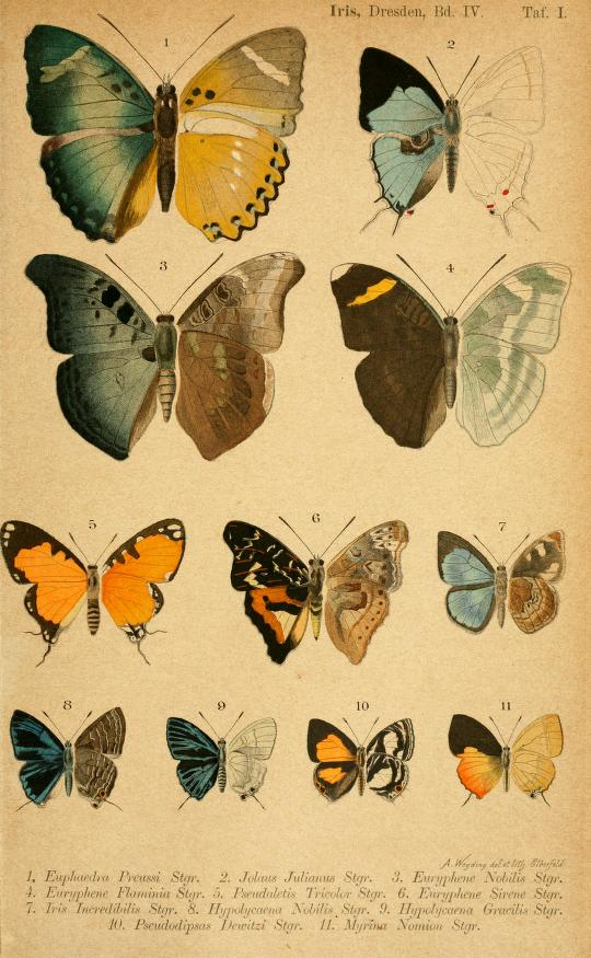 Deutsche Entomologische Zeitschrift (Iris, Dresden) Plate 1 Otto Staudinger, 1891 Neue exotische Lepidopteren. Deutsche Entomologische Zeitschrift, Iris 4:61-157. Euphaedra preussi Staudinger, 1891 [Cameroon - Zaire] Jolaus julianus Staudinger, 1891 [Sierra Leone] Euryphura nobilis Staudinger, 1891 [Sierra Leone] Bebearia flaminia (Staudinger, 1891) [E.Nigeria - NE.Zaire] TL: Barombi Station, Cameroons Sithon? (Pseudaletis?) tricolor Staudinger TL: Cameroons Euptera sirene Staudinger r, 1891 Gold Coast Iridana incredibilis Staudinger, 1891 nobilis = Pilodeudorix barbatus Druce, 1891 gracilis = Pilodeudorix virgata (Druce, 1891) dewitzi = Anthene juba Fabricius, 1787 Myrina nomion Staudinger, 1891